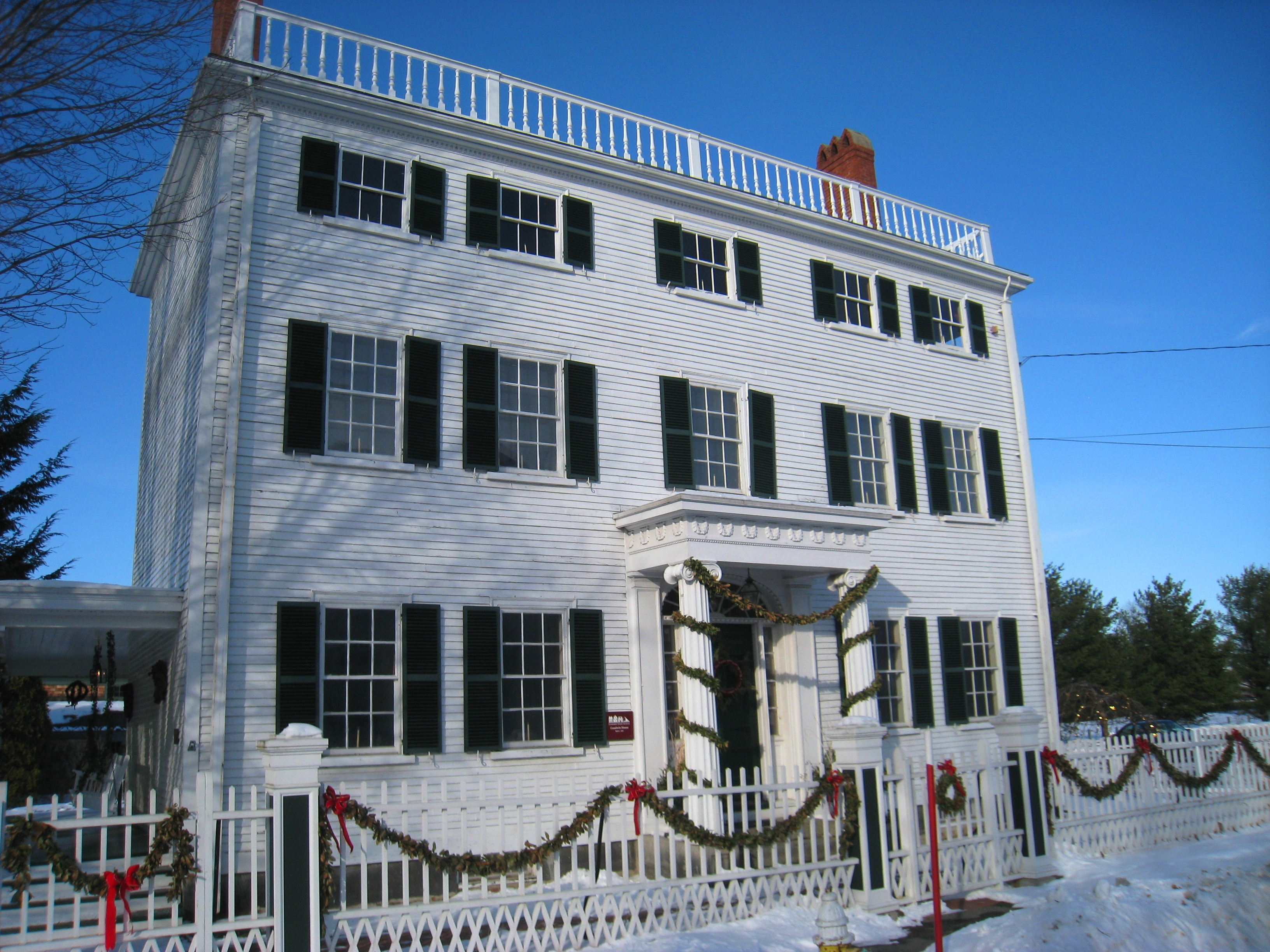 Goodwin Mansion (Strawberry Banke), Portsmouth, New Hampshire, USA. I took this photograph.